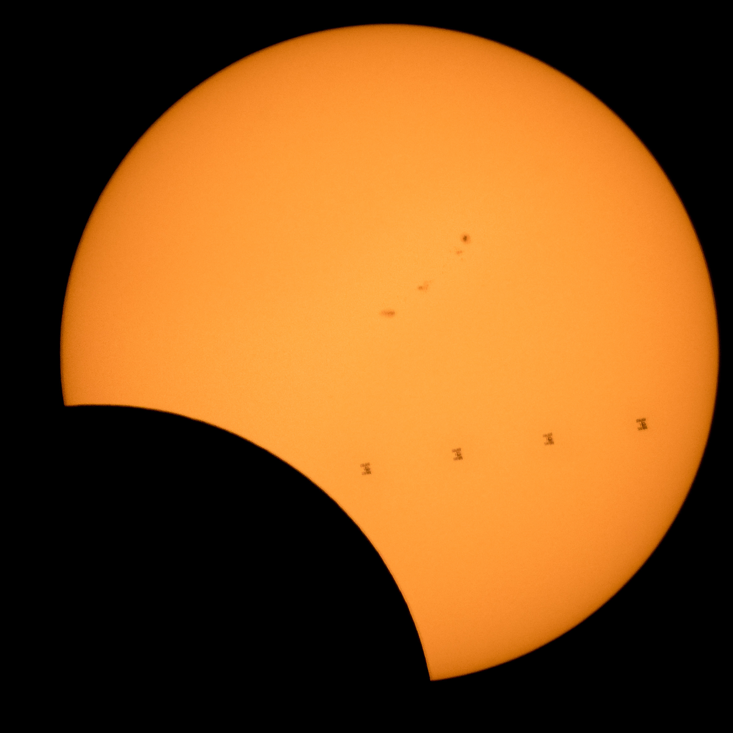 NASA photographers on the ground, in the air, and in orbit were using their cameras to capture unforgettable views of the eclipse. The photograph below is a composite, made from seven frames, that shows the International Space Station (ISS) as it transited the Sun at roughly 5 miles (8 kilometers) per second. It was taken on August 21, 2017, from Banner, Wyoming. On board the station as part of Expedition 52 were: NASA astronauts Peggy Whitson, Jack Fischer, and Randy Bresnik; Russian cosmonauts Fyodor Yurchikhin and Sergey Ryazanskiy; and ESA (European Space Agency) astronaut Paolo Nespoli. See a video of the ISS transiting the Sun here.